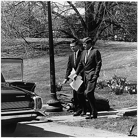 Theodore Sorensen, President Kennedy. White House, South Lawn., 03/12/1963